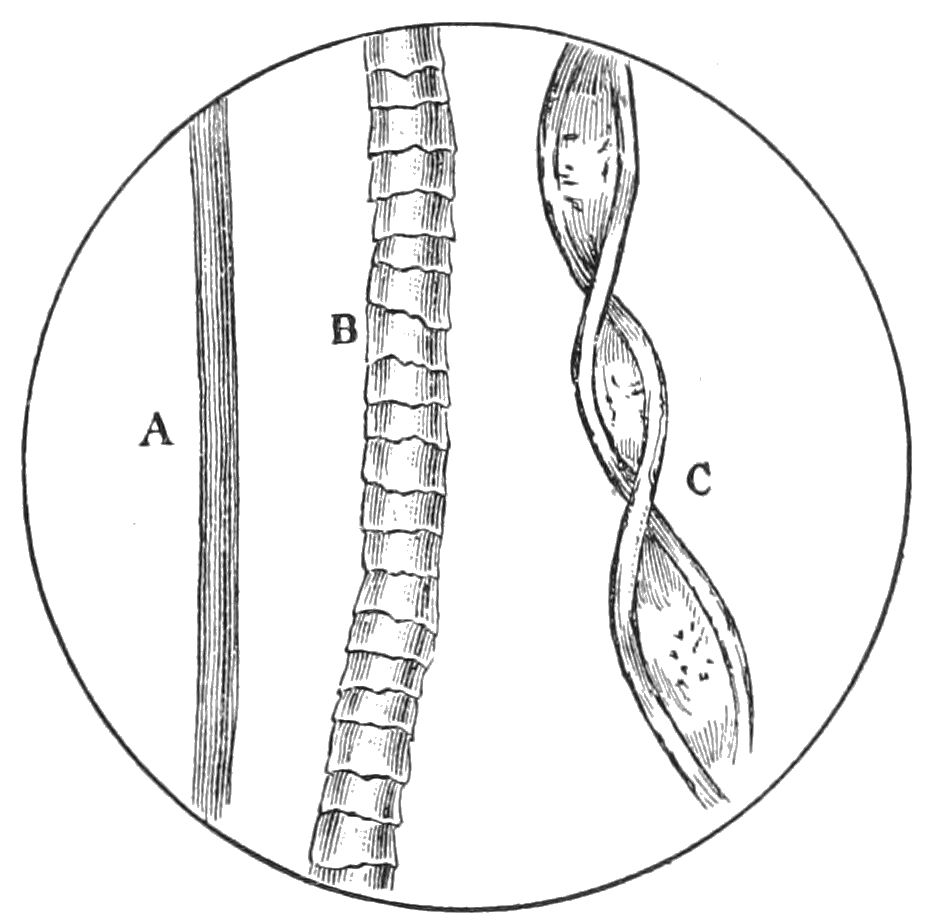 Magnified fibers of silk wool and cotton